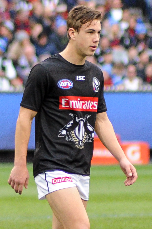 Callum Brown during the warm up prior to the AFL round twelve match between Melbourne and Collingwood on 12 June 2017 at the Melbourne Cricket Ground in Melbourne, Victoria.